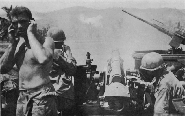 U.S. M7 howitzer fires on Japanese positions at Catmon Hill, Leyte, 27 October 1944.